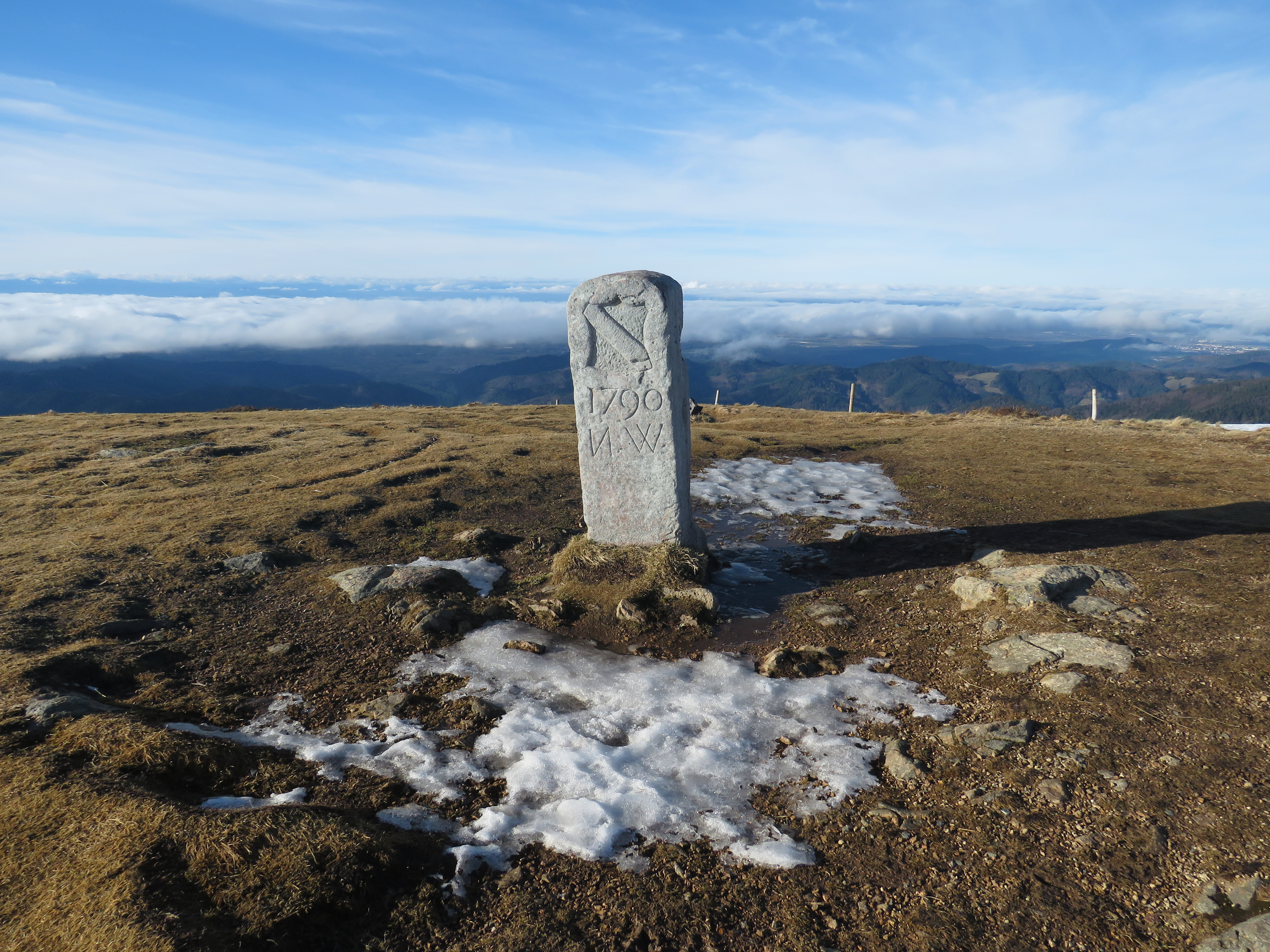 Boundary stone near the summit the Belchen, the Black Forest, Germany. It is marked with the year 1790 and the Baden coat of arms.